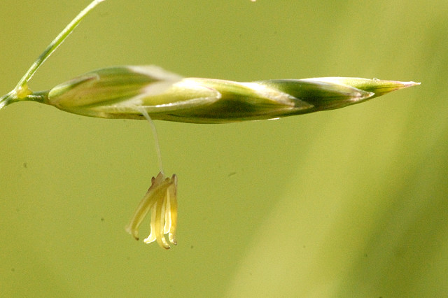 Festuca altissima from Commanster, Belgian High Ardennes .